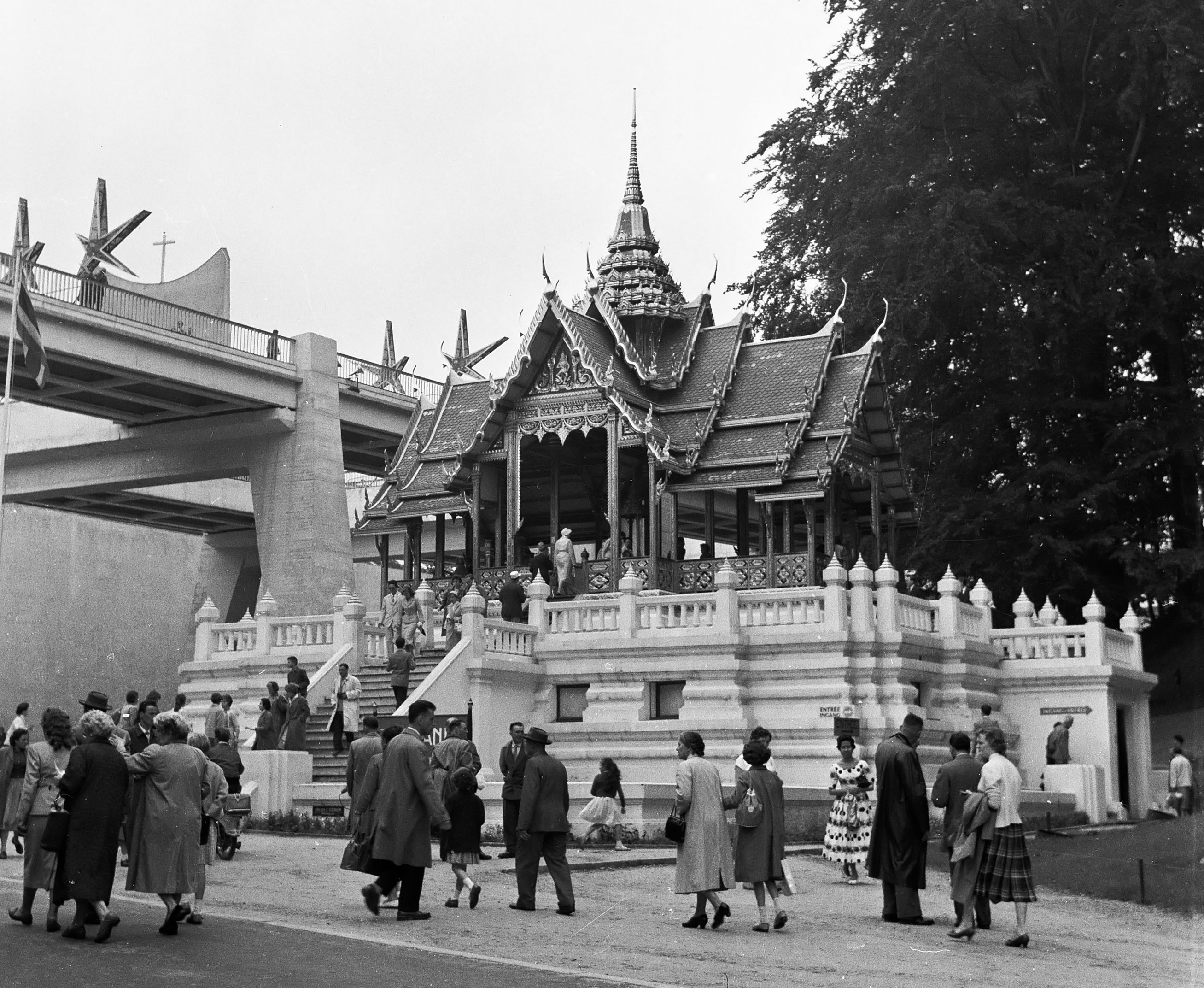 Expo 1958 building of Thailand